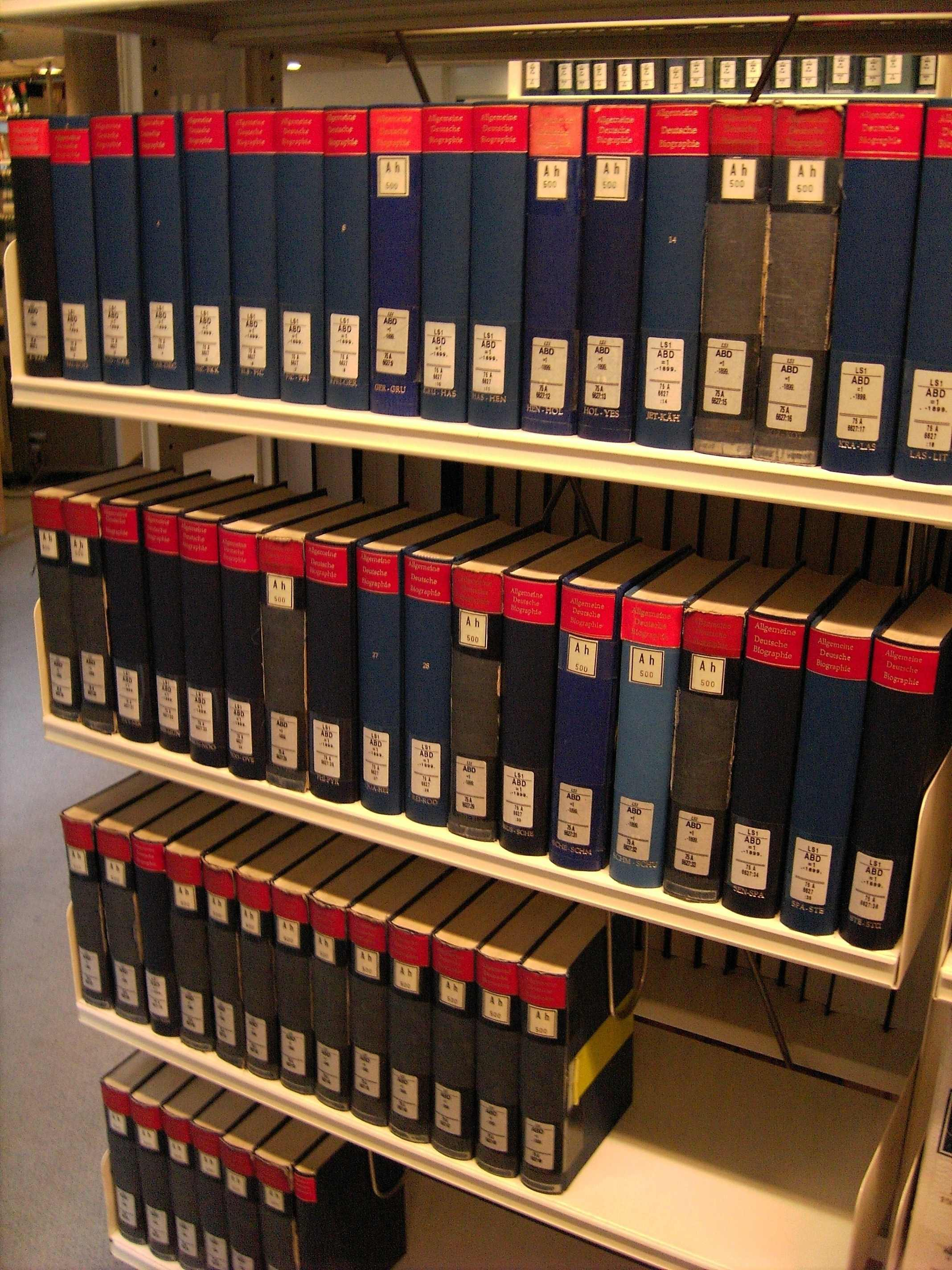 Volumes of the public domain Allgemeine Deutsche Biographie (1875-1912). The books on the picture have been reprinted without modification between 1967-1973. The text therein is in the public domain, as are the book titles. The design of the cover does not surpass the minimum requirements to be copyrightable (Schöpfungshöhe), as they merely represent a work of craftsmanship, and are not a work of artistic expression as required by law to be copyrightable.